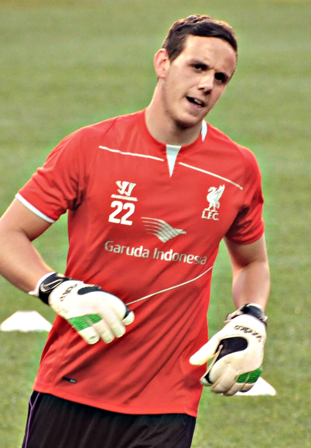 Welsh association football player Danny Ward at a warm-up before a friendly game Liverpool FC v AS Roma at Fenway Park in Boston.